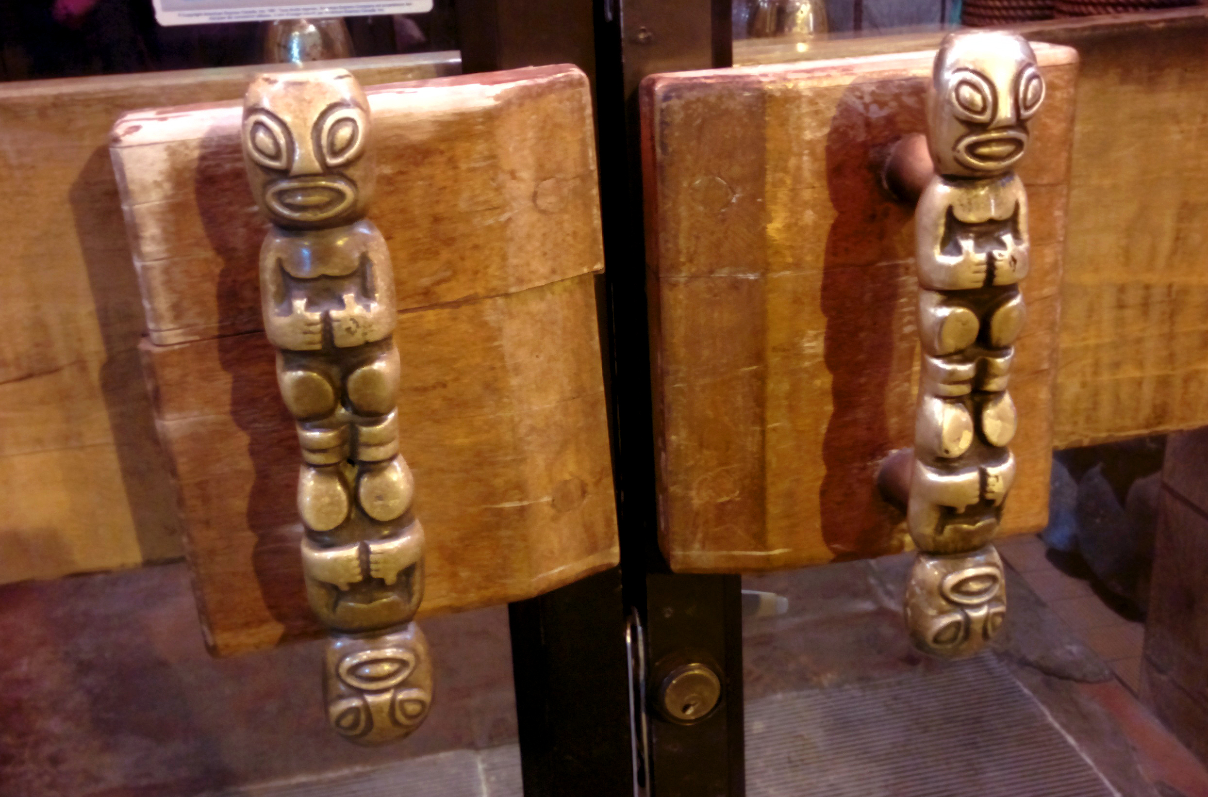 Tiki statues as door handles at Jardin Tiki, landmark restaurant in Montreal. Photo taken 13 March 2015.